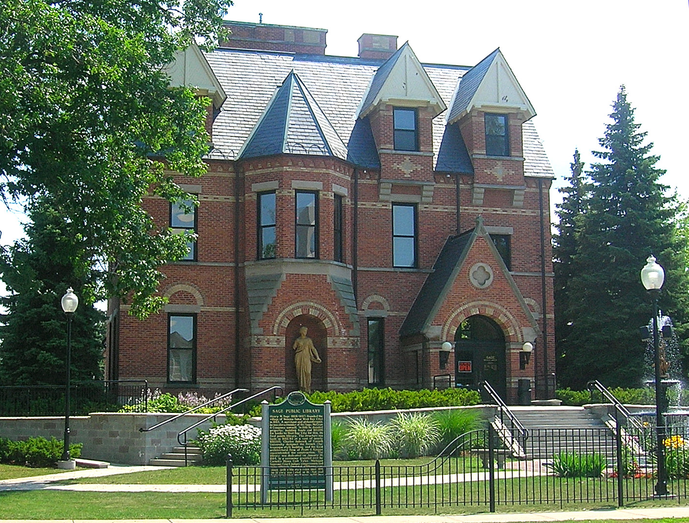 The Sage Library — in Bay City, Michigan. Gothic revival architecture - on the National Register of Historic Places.